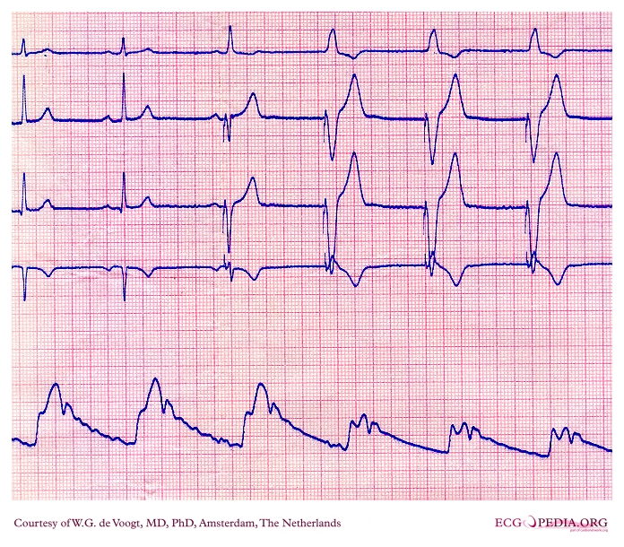 In this tracing, Leads I,II III and avR are depicted. The last tracing shows the arterial pressure. This tracing is a clear example of the effect of pacing on blood pressure. Note the marked blood pressure drop initiated by ventricular pacing. Though most patients are not symptomatic, some can experience dizziness, fatigue or even heartfailure by ventricular pacing. These symptoms are called the pacemaker syndrome and are most pronounced by VVI pacing and mostly less prominent in DDD pacing. When VA conduction during VVI pacing is initiated, symptoms can be more pronounced.